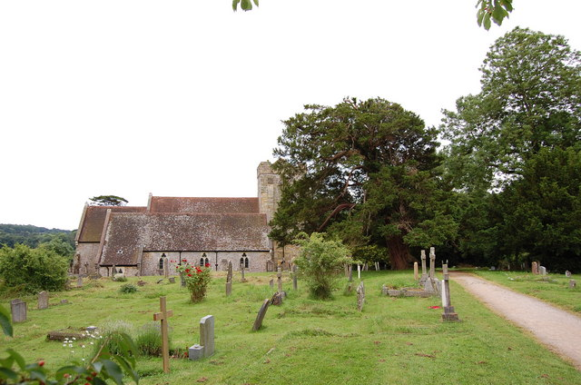 St George's parish church, Crowhurst, East Sussex, seen from the north